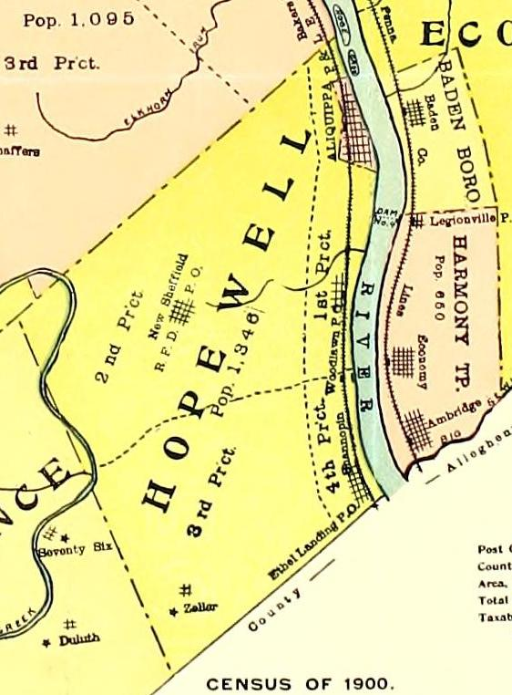 Title: History of Beaver County, Pennsylvania and its centennial celebration, Year: 1904 (1900s) Authors: Bausman, Joseph Henderson, 1854- Subjects: Publisher: New York : The Knickerbocker Press Text Appearing Before Image: Co untfI ■TeetDist. j Bast Dist. Text Appearing After Image: LIST OF AUTHORITIES CONSULTED Agnew (Hon. Daniel), Settlement and Land Titles of North WesternPennsylvania. Philadelphia, Kay & Brother, 1887. Agnew (Hon. Daniel), four pamphlets—Fort Mcintosh, its Times andMen, 189 • Fort Pitt and its Times, 1894; Kaskaskunk, or Kuskuskee,the Great elaware Town on the Big Beaver, 1894; and Logstown on theOhio, 189.. Pittsburg, Pa. Albach (James R.), Annals of the West. Pittsburgh, 1856. Allegheny County, Centennial History Souvenir. Pittsburg, 1888. Allegheny County, History of. Warner, Chicago, 1889. Allegheny Countys Hundred Years. Thurston, 1888. Allegheny County, Records of the several Courts of. American Pioneer. Chillicothe, Ohio, 1842. American Review. New York, 1848-50. Annals of Philadelphia and Pennsylvania. By John F. Watson, en-larged by Willis P. Hazard. 3 vols. Philadelphia, 1884. Ashe (Thomas, Esq.), Travels in America, Performed in 1806 by.London, printed; Newburyport, reprinted, 1808. Atkinsons Casket. Philadelphia, 1835. Ban